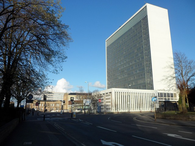 South Lanarkshire Council Buildings